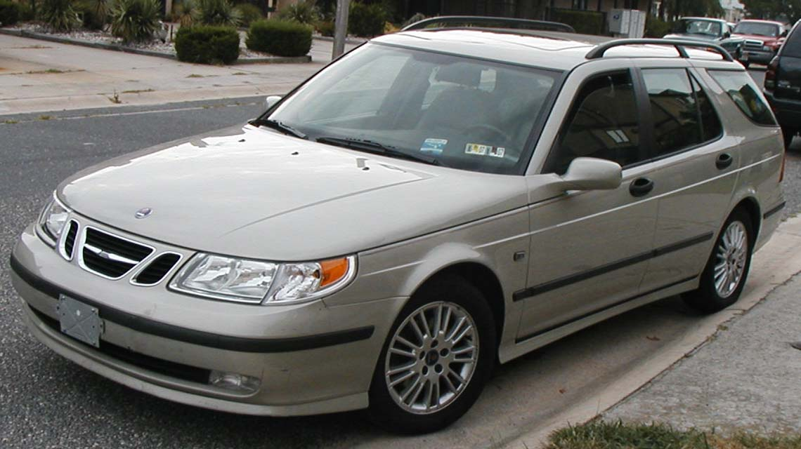 2005 Saab 9-5 Arc SportCombi photographed in USA.